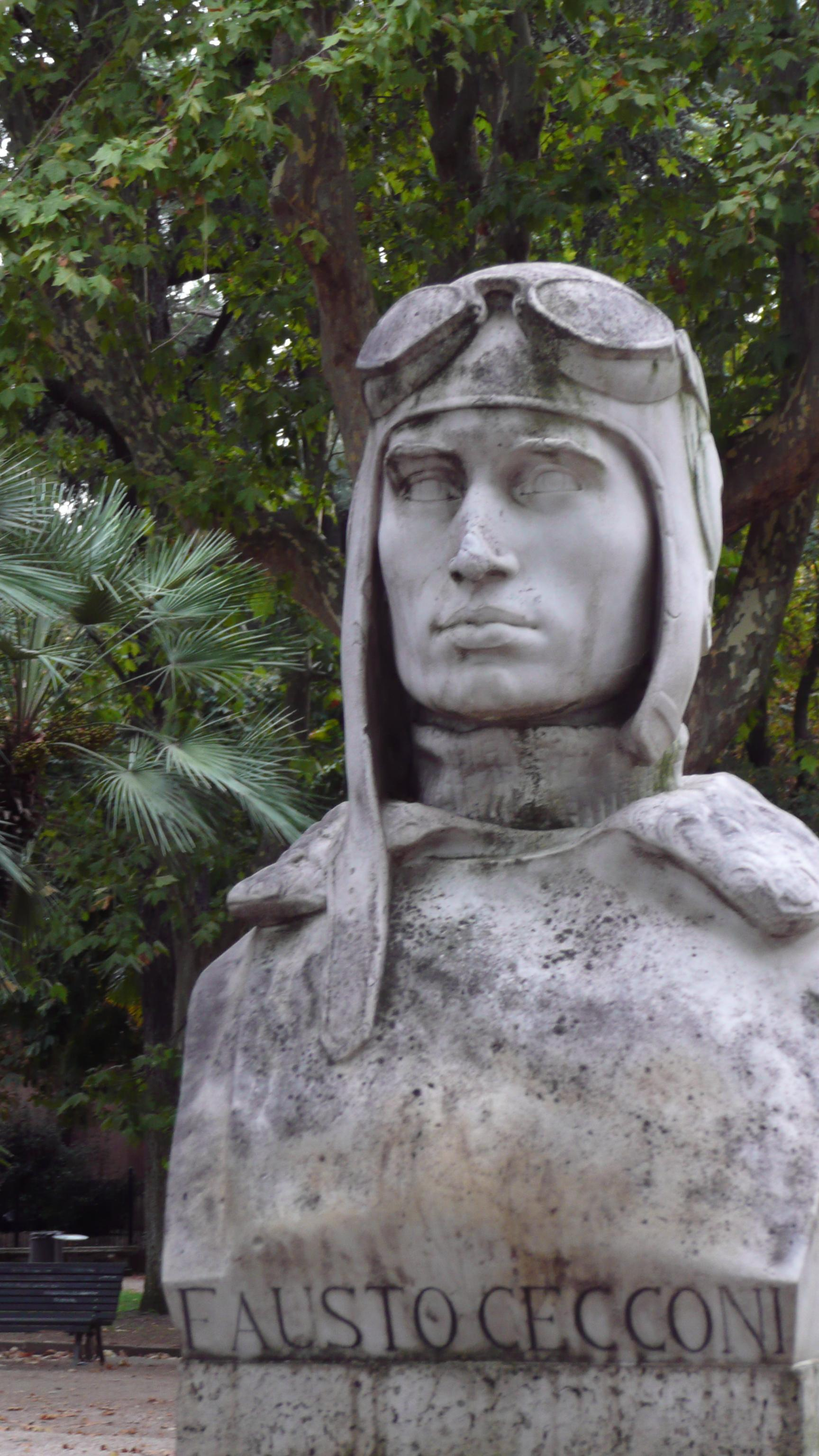 Fausto Cecconi.Aviator.Villa Borghese, Rome.He flew with Umberto Maddalena for 67 h 13 min 55 sec without refuelling in flight.The date was 02/06/1930, the place Montecelio (Italy)and the aircraft a Savoia Marchetti S-64 (Engine 1 Fiat A 22 T). The distance flown was 8 188.80 km